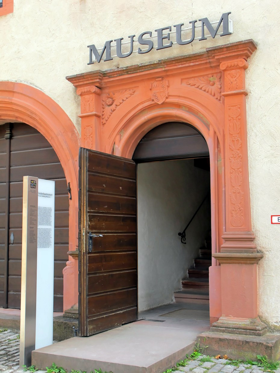 Würzburg, Fortress "Marienberg", Historic Library, Entry to the Museum